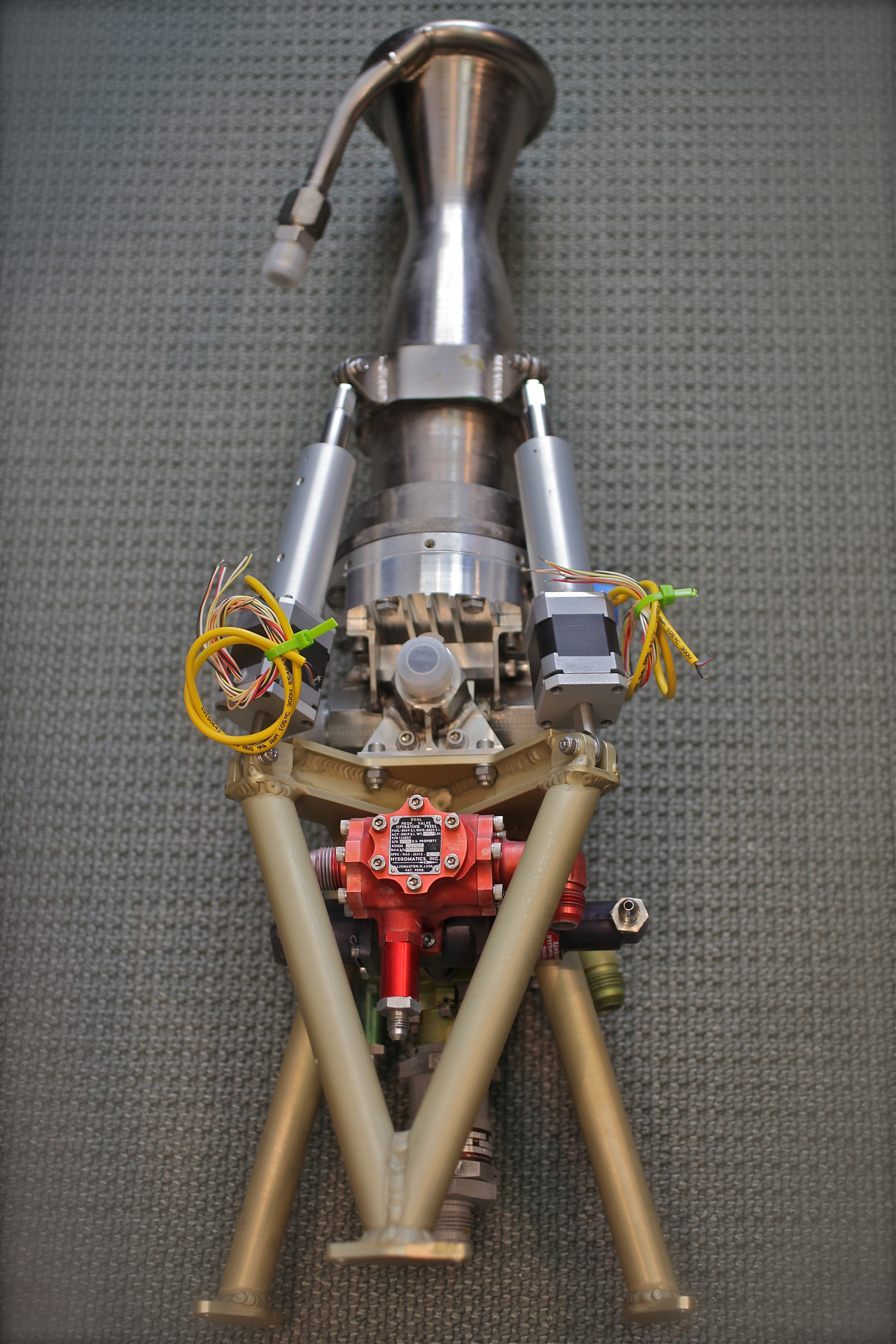 Assembled in 1960, this Mercury Atlas vernier motor, (Rocketdyne LR101), provides attitude adjustment during the rocket’s launch. It has many of elements of the liquid fuel engines that later powered the Apollo and SpaceX rockets– with regenerative cooling of the nozzle, electric igniter, RP1 and LOX valves, and dual pistons for directional pointing.